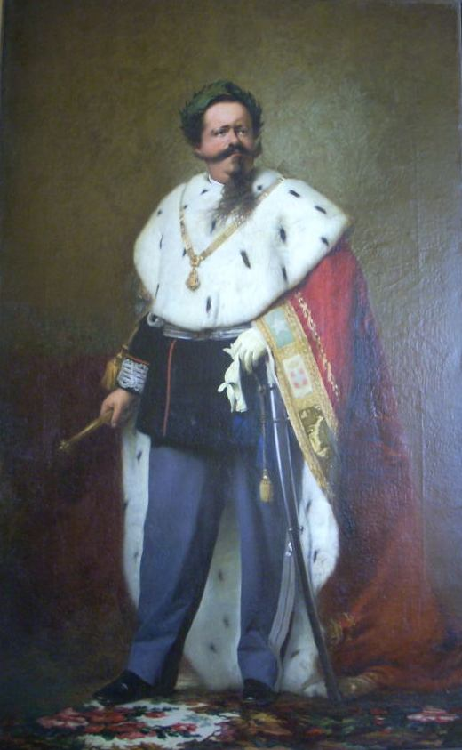 Portrait of Victor Emmanuel II of Italy (1820-1878)